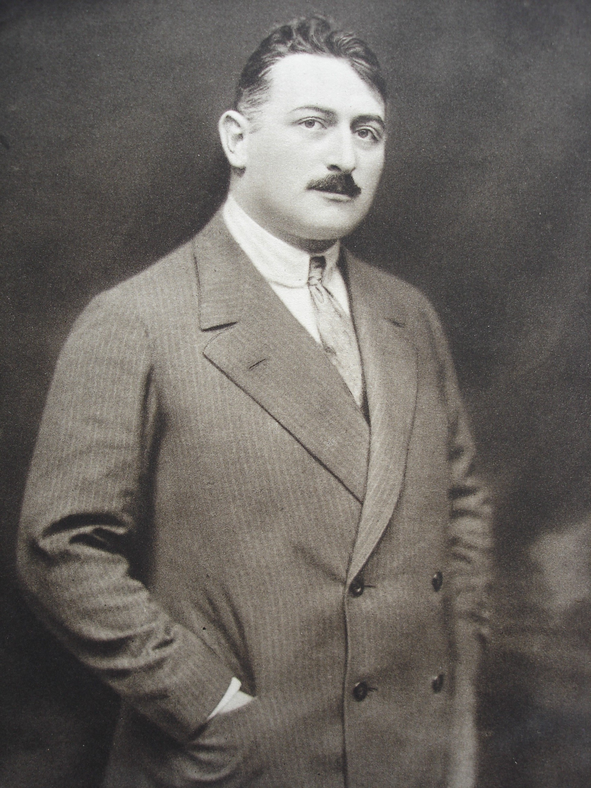 Jean Gilbert (1879–1942, birthname Max Winterfeld), German composer